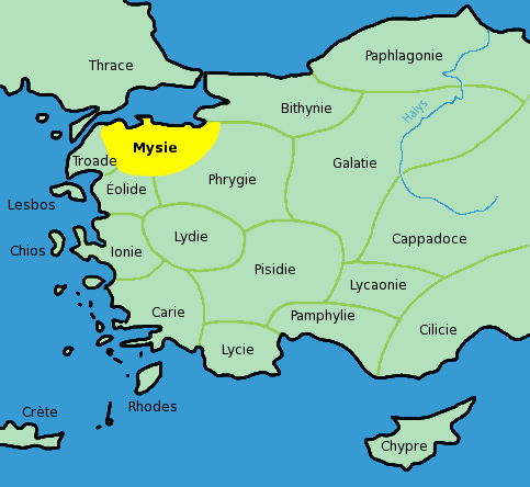 Map of Mysia in French. Adaptated from Image:Mysia map ancient community.jpg.